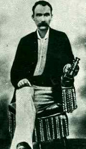 Maximo Gomez Baez at age 45